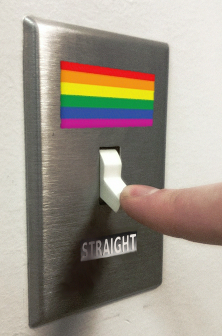 Overwhelming evidence points to sexual orientation being innate and immutable, and not subject to change through conversion therapy sexual orientation change efforts.